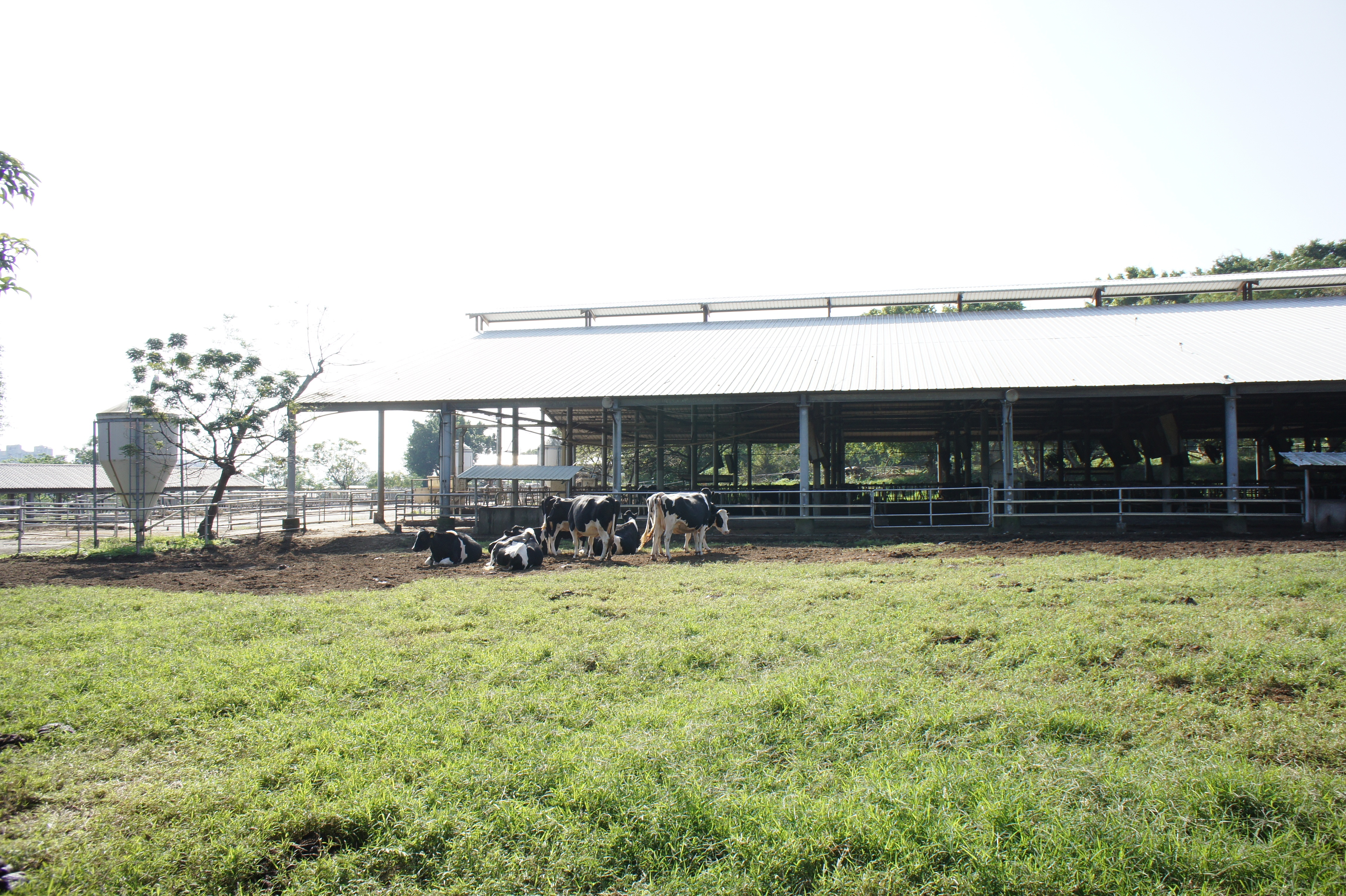 The byre of Tunghai University in Taichung City, Taiwan.